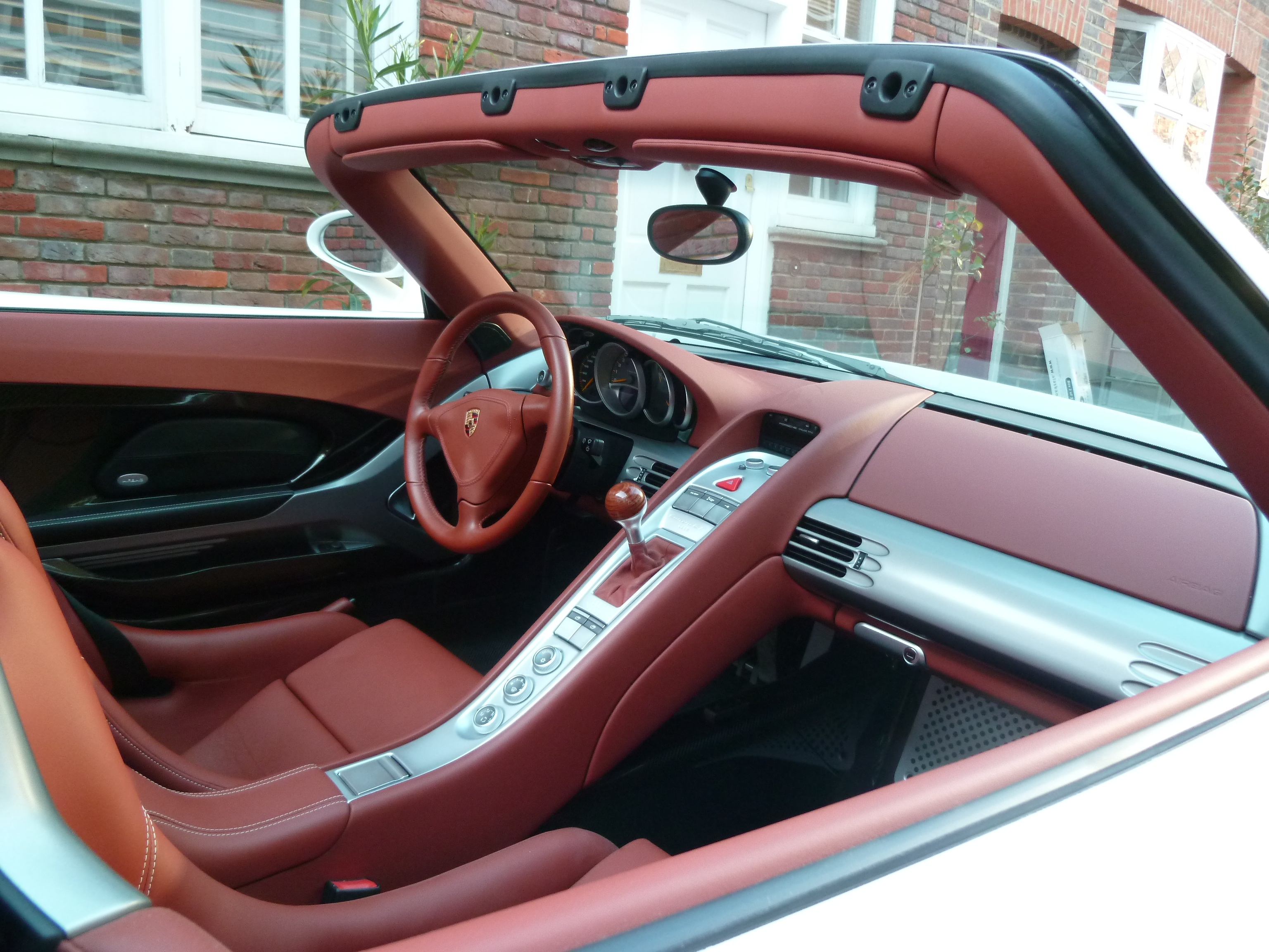 Carrera GT white